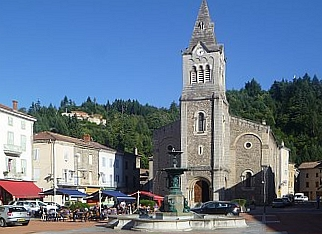 Church in Le Cheylard, France